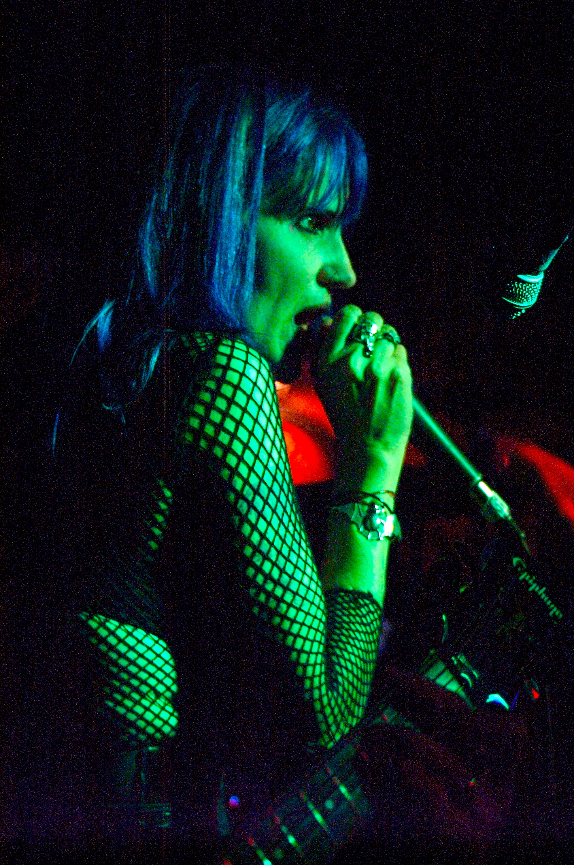 Dinah Cancer, vocalist for death rock band 45 Grave, performing at the Bats over Broadway event at Blue Cafe in Long Beach, California, USA.